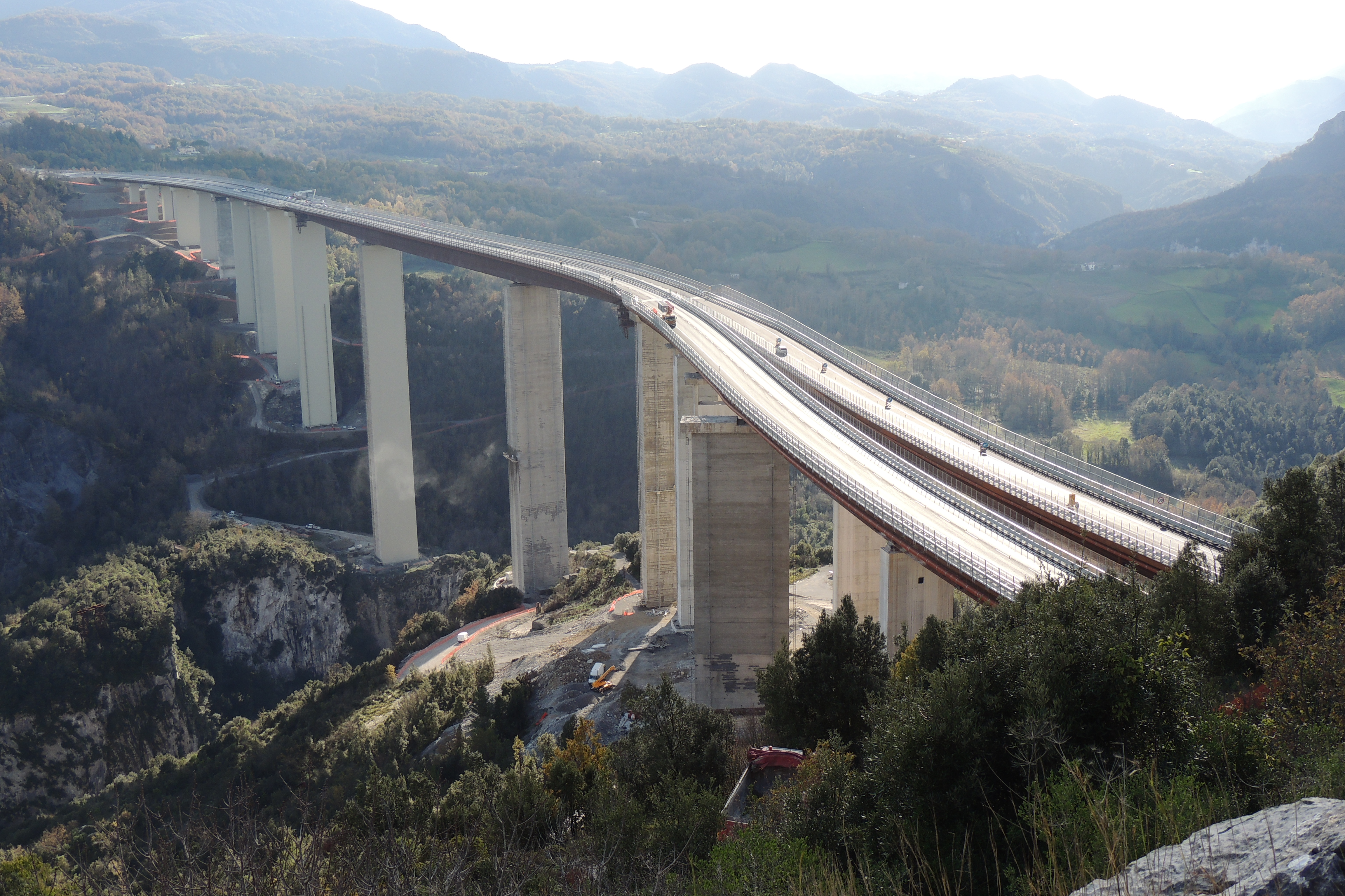 Italia bridge pylons 5&6 blast 1